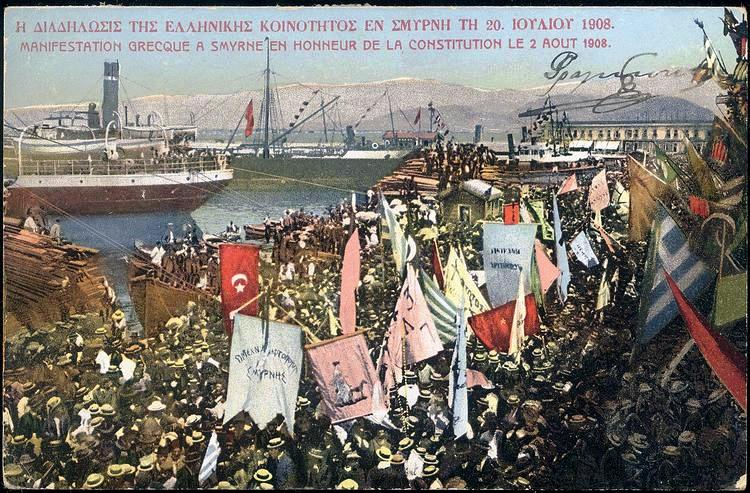 Greek manifestation in support of the Ottoman Constitution, Smyrne, 2 August 1908